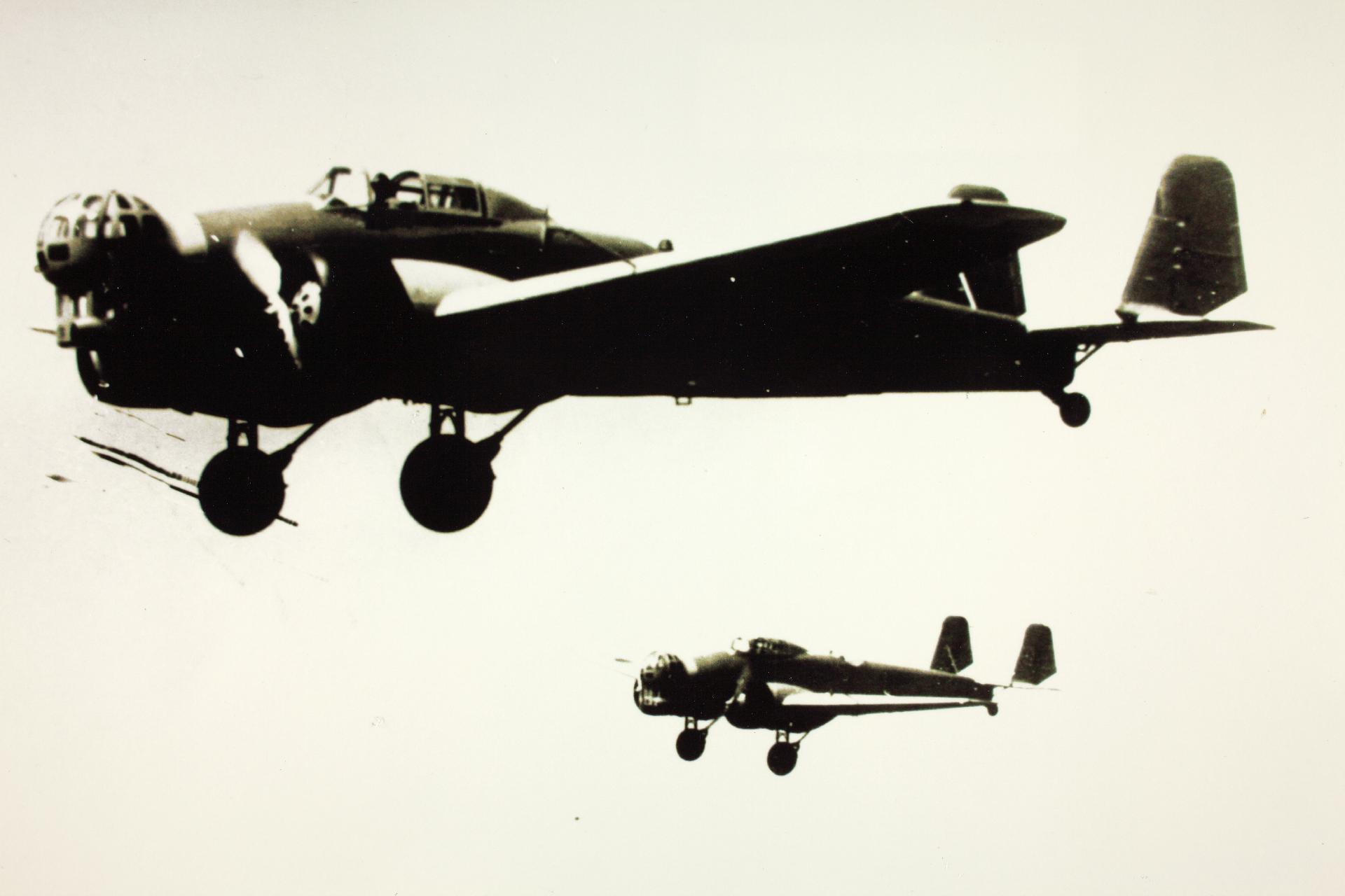 Mitsubishi Ki-2 Army type 93-2 bombers in flight